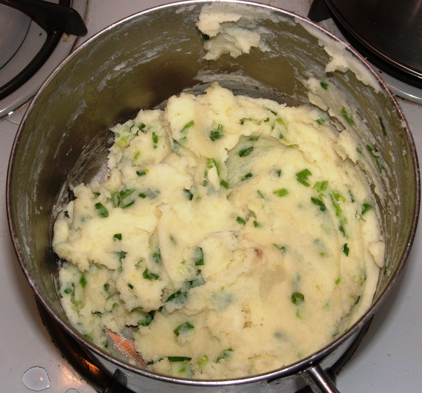 Champ (brúitín in the Irish language) is an Irish dish made by combining mashed potatoes and chopped scallions with butter and milk, and optionally, salt and black pepper.